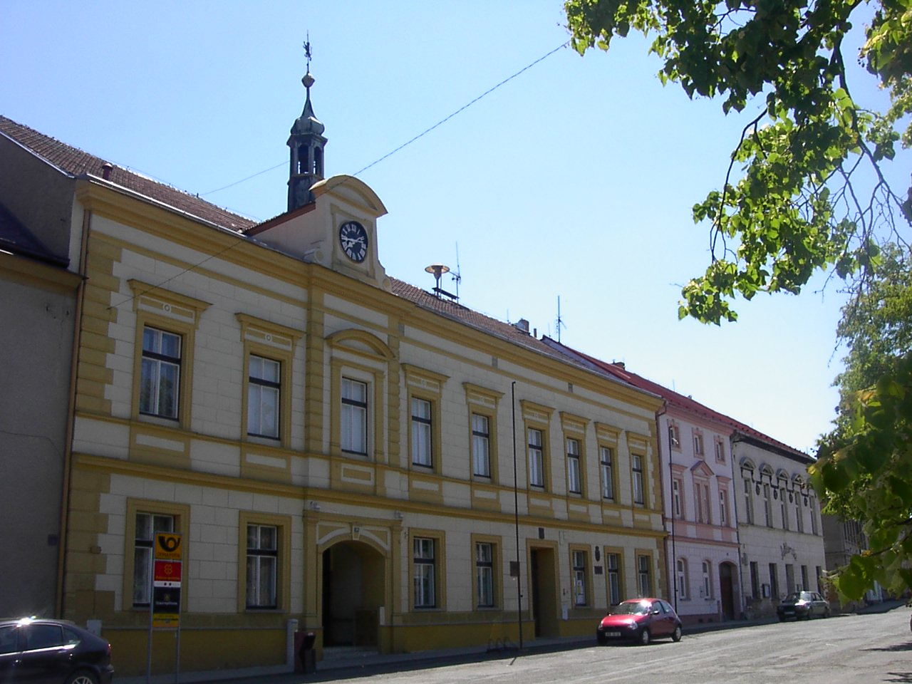 Townhall in Mýto